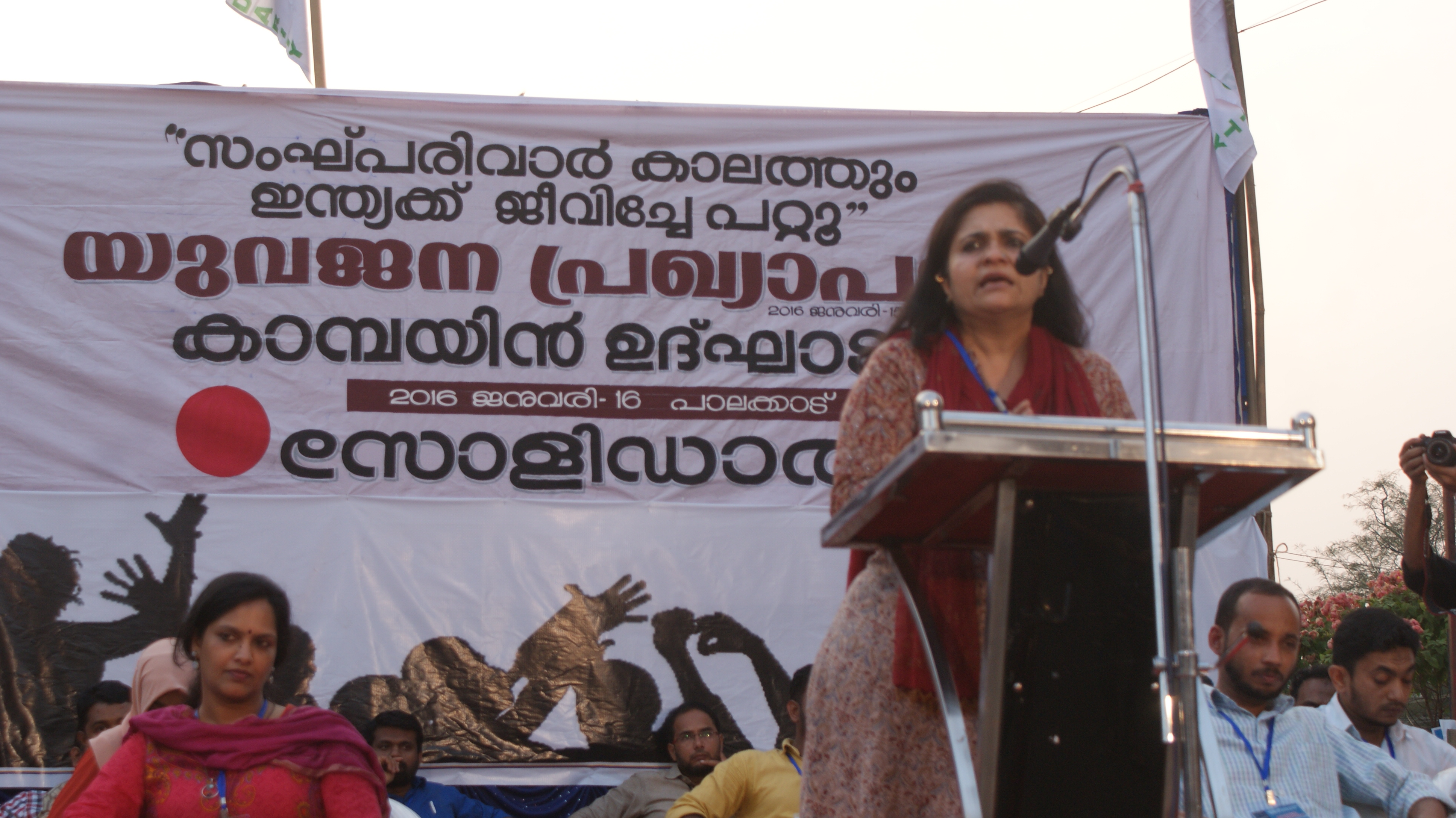 Teesta Setalvad in solidarity youth movement program in kerala